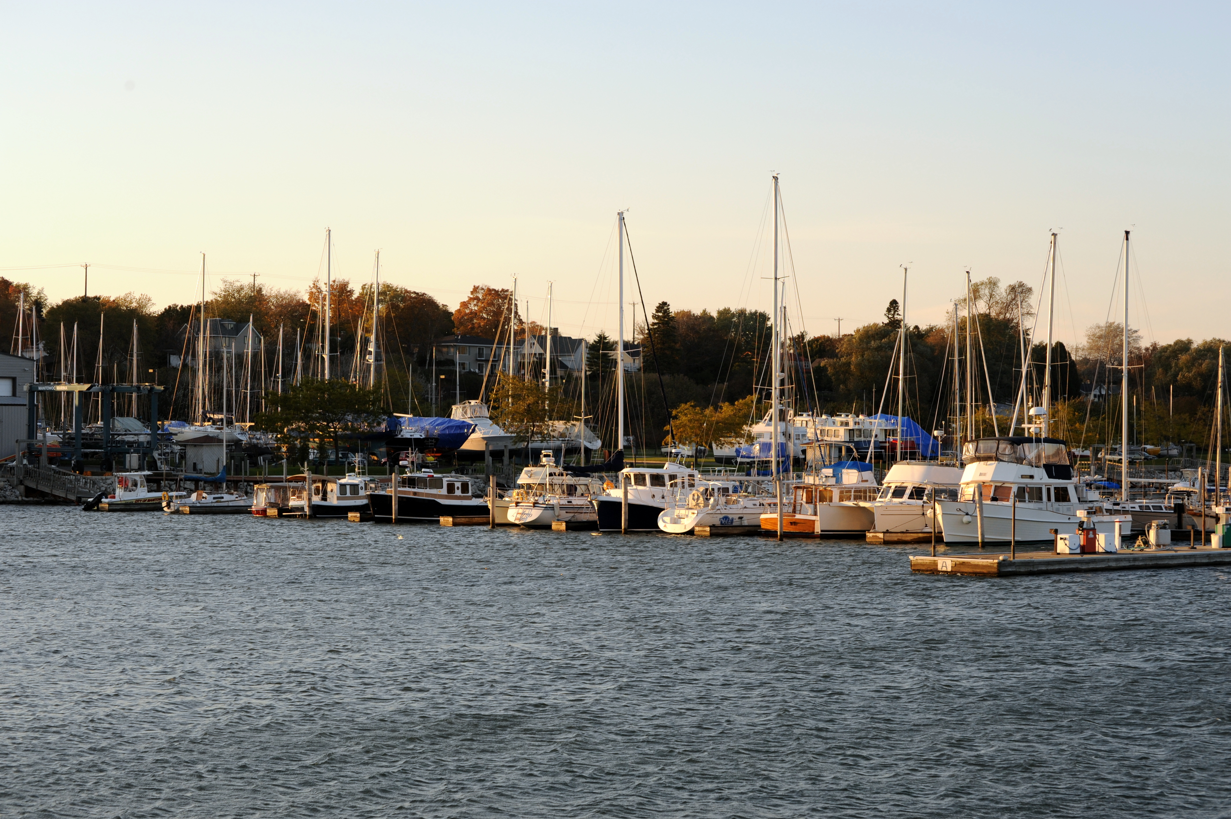 Manitowoc Harbor, Manitowoc, Wisconsin, United States.